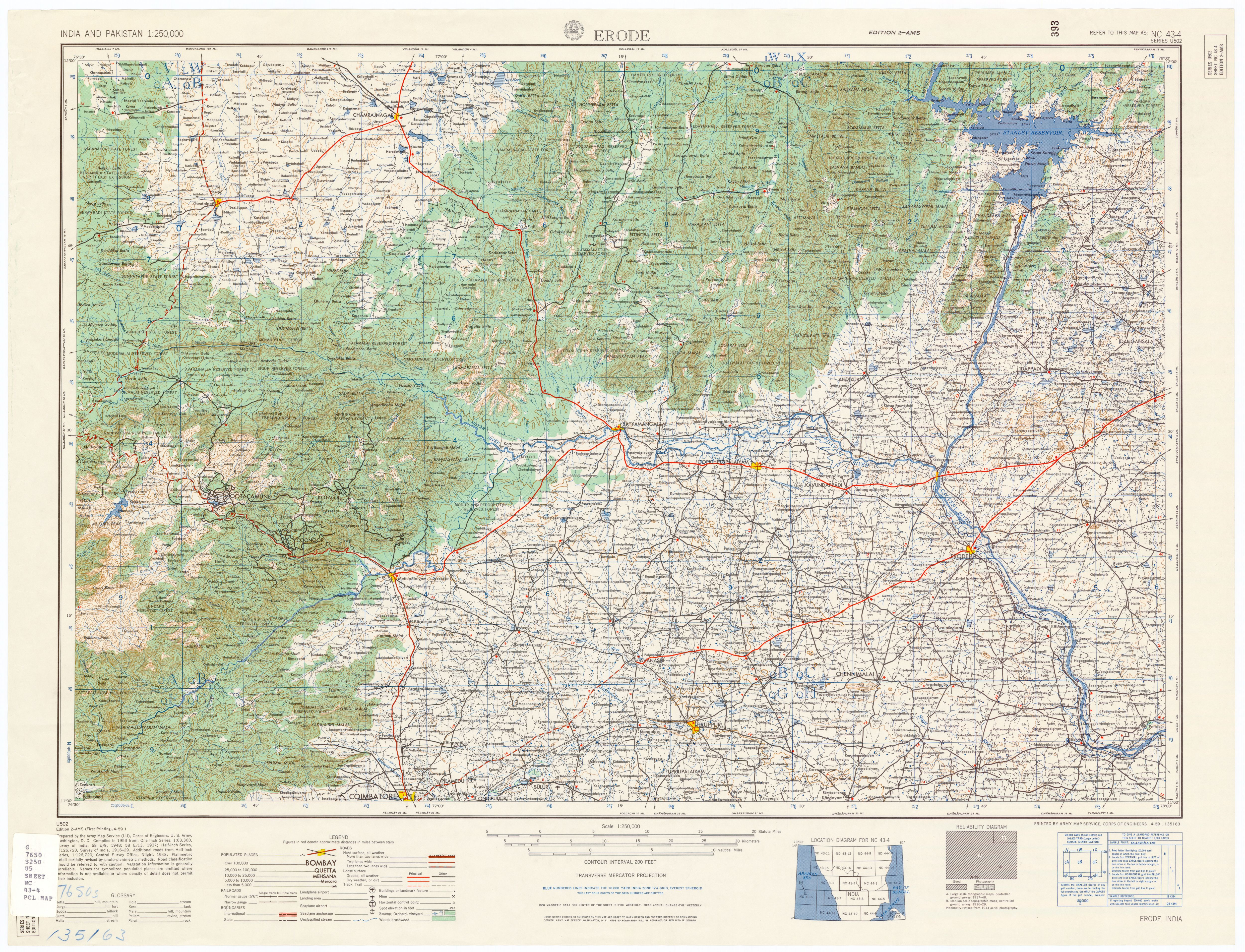 Series U502, U.S. Army Map Service, 1955-Tamil Nadu